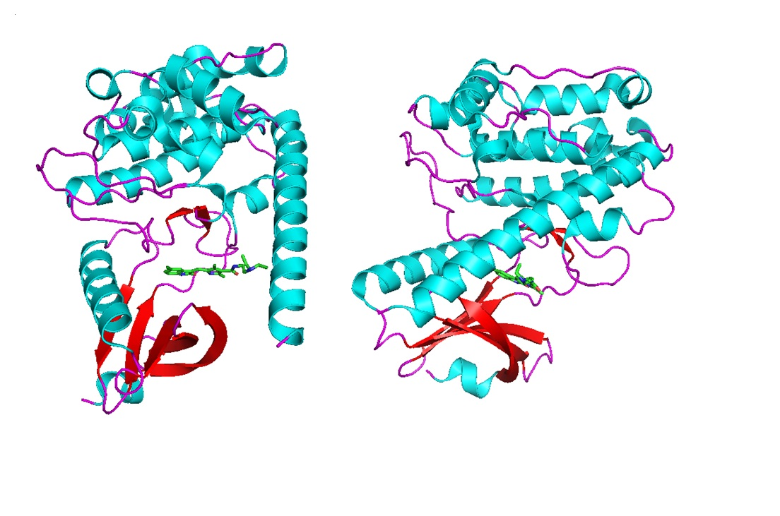 The structure of the kinase domain of CaMKII rendered by pymol from PDB 2v70